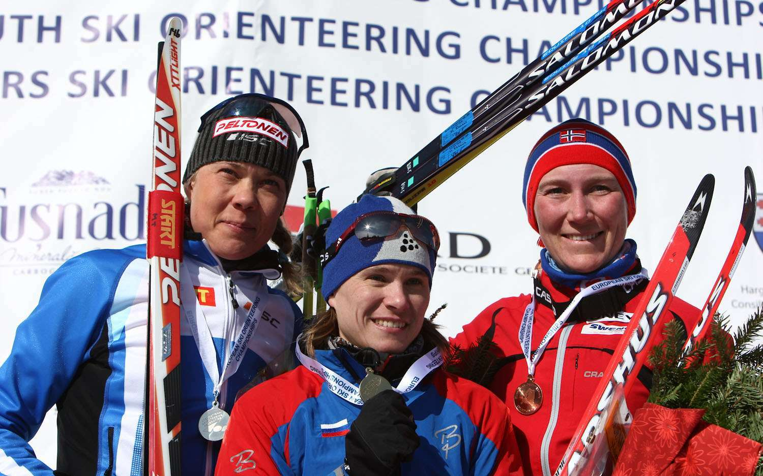 European Ski-Orienteering Championship 2010, (8th - 15th February, 2010; Miercurea Ciuc, Romania). Women's prize giving ceremony. Middle distance. From left to right: Liisa Anttila (silver medal), Tatiana Vlasova (gold), Marte Reenaas (bronze)